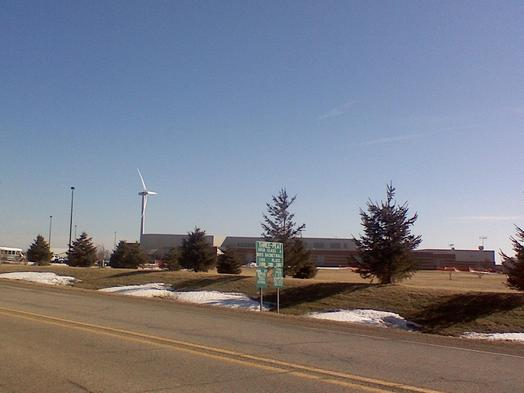 Picture of front of high school, winter